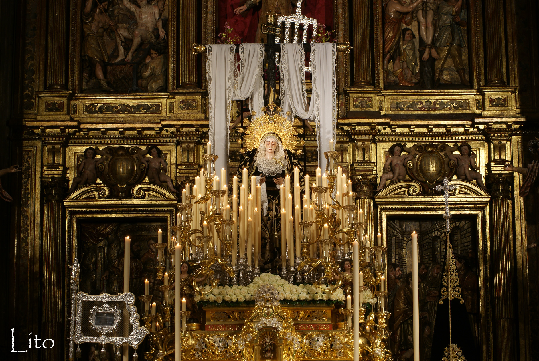 Paso de la Soledad de San Lorenzo